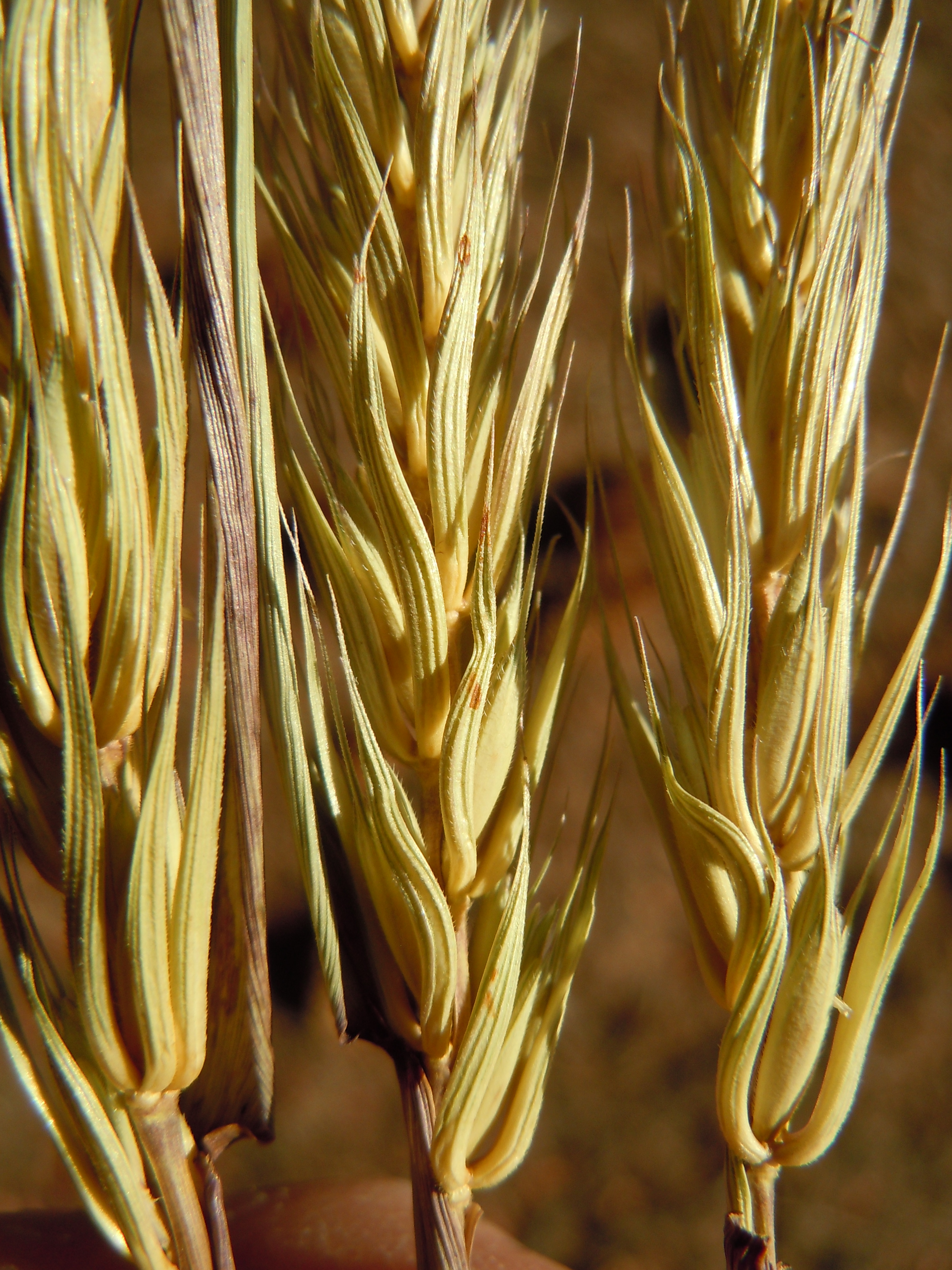 The glumes with curved bases that are also boney both in texture and coloration are diagnostic of Elymus virginicus.